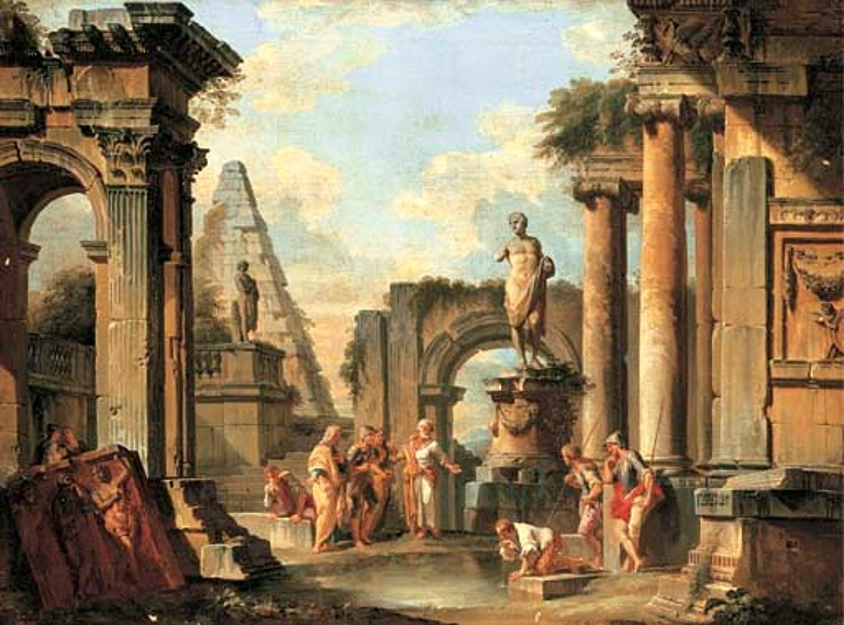 A capriccio of classical ruins with Diogenes throwing away his cup.